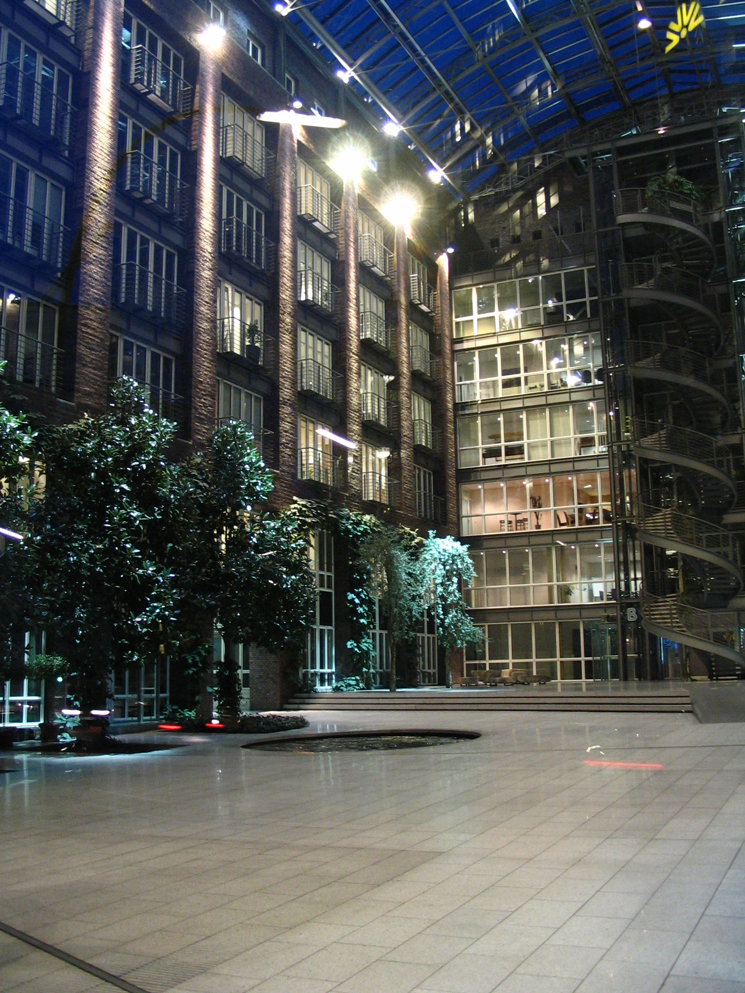 Atrium of Commerzbank Building - Hamburg